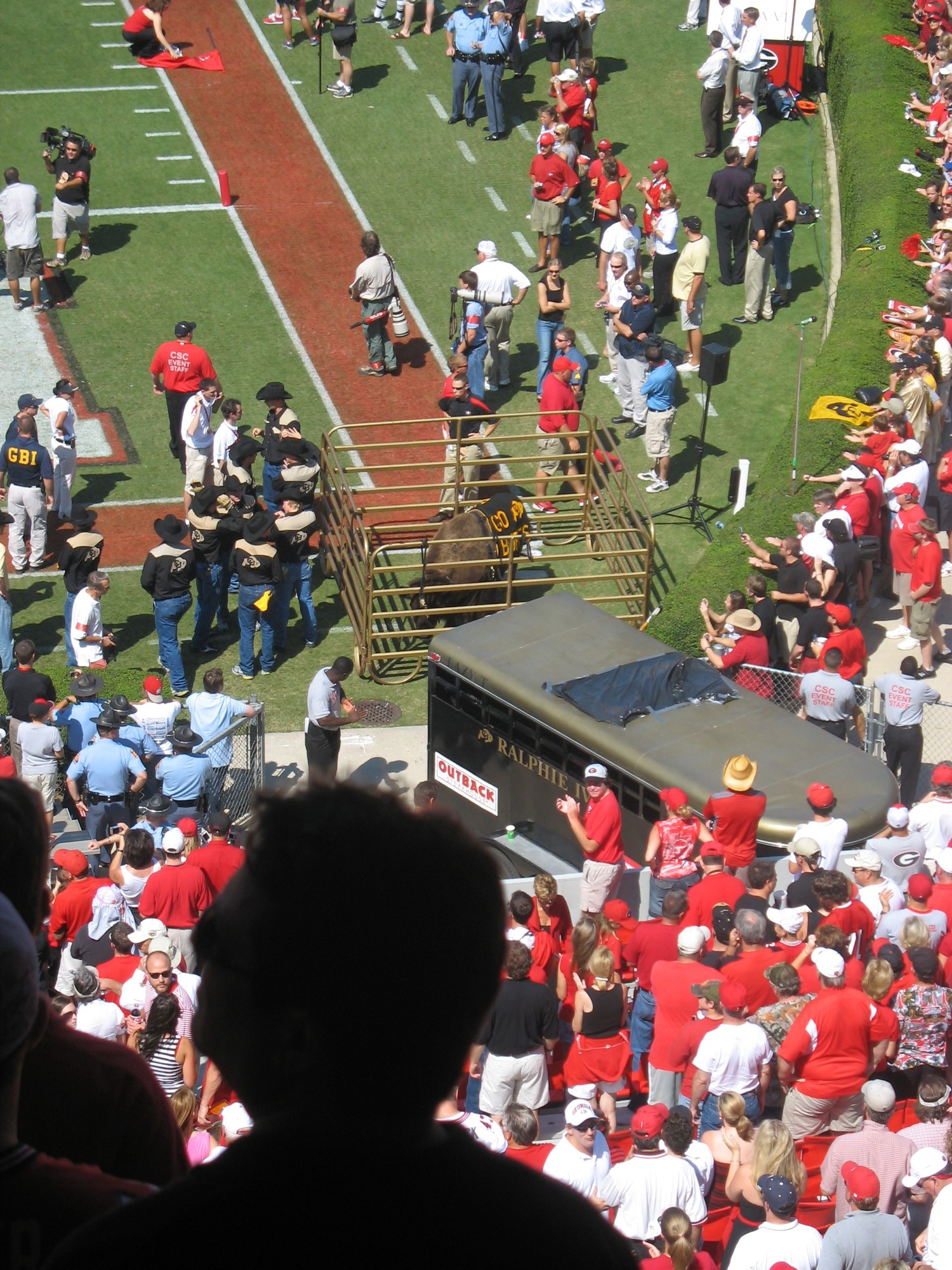 Ralphie IV in her pen at the Georgia game on September 23, 2006. Also seen is the trailer in which she travels.